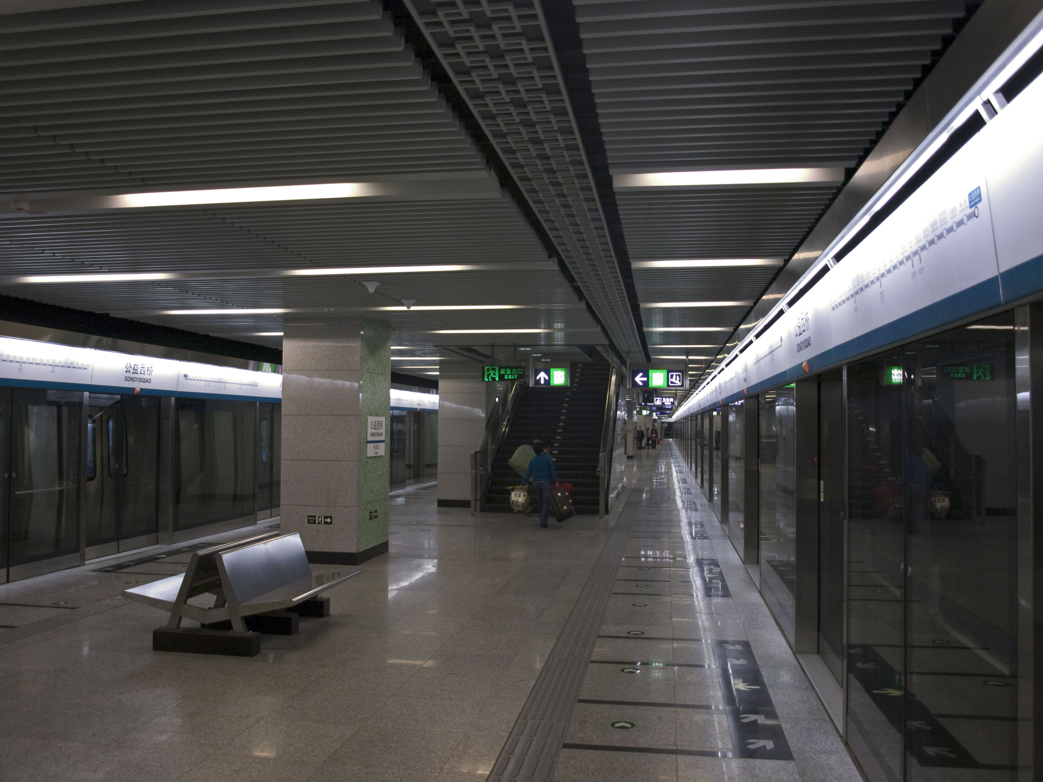 Gongyixiqiao station, Beijing Subway